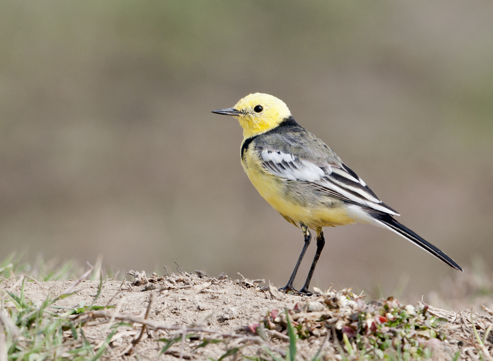 A male Citrine Wagtail in Gurgaon, Haryana, India. It is has nearly completed transition to breeding plumage.